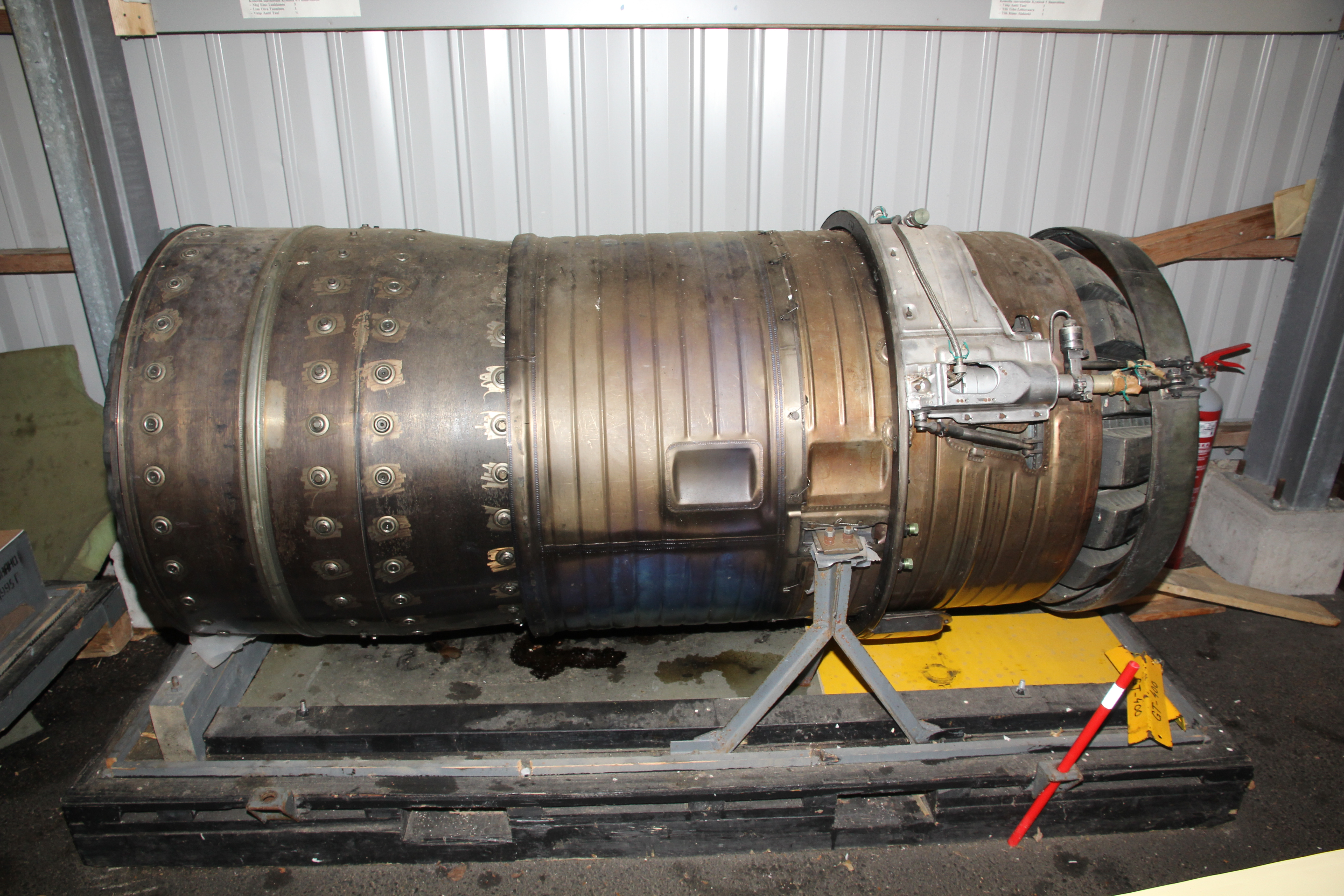 Tumansky R-25-300 jet engine from MiG-21bis fighter (MG-116) photographed in Karhulan ilmailukerho aviation museum. Jetpipe?